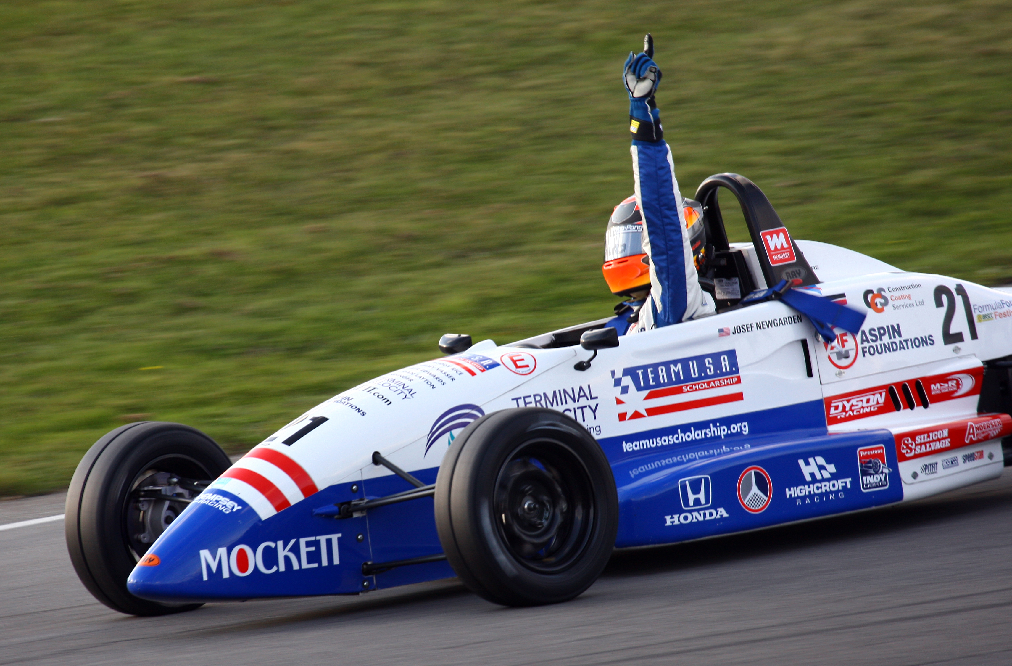 Josef Newgarden wins the Formula Ford Festival